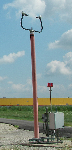 The Runway measure equipment